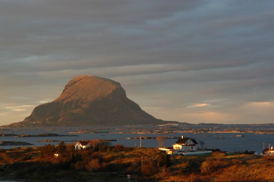 The Island Slotterøy with Lovund in the background